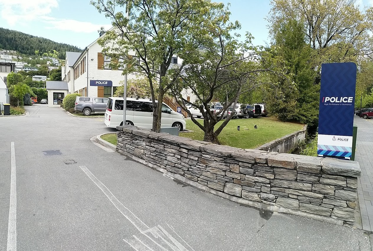 Queenstown Police Station in 2018. The new signage incorporates a tukutuku (woven) chevron.